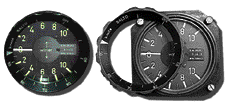 Some variometers are equipped with a rotatable rim speed scale called a MacCready ring. This scale indicates the optimum airspeed to fly when traveling between thermals for maximum cross-country performance. During the glide between thermals, the index arrow is set at the rate of climb expected in the next thermal. On the speed ring, the variometer needle points to the optimum speed to fly between thermals. If expected rate of climb is slow, optimum inter-thermal cruise airspeed will be relatively slow. When expected lift is strong, however, optimum inter-thermal cruise airspeed will be much faster. [Figure 4-10]